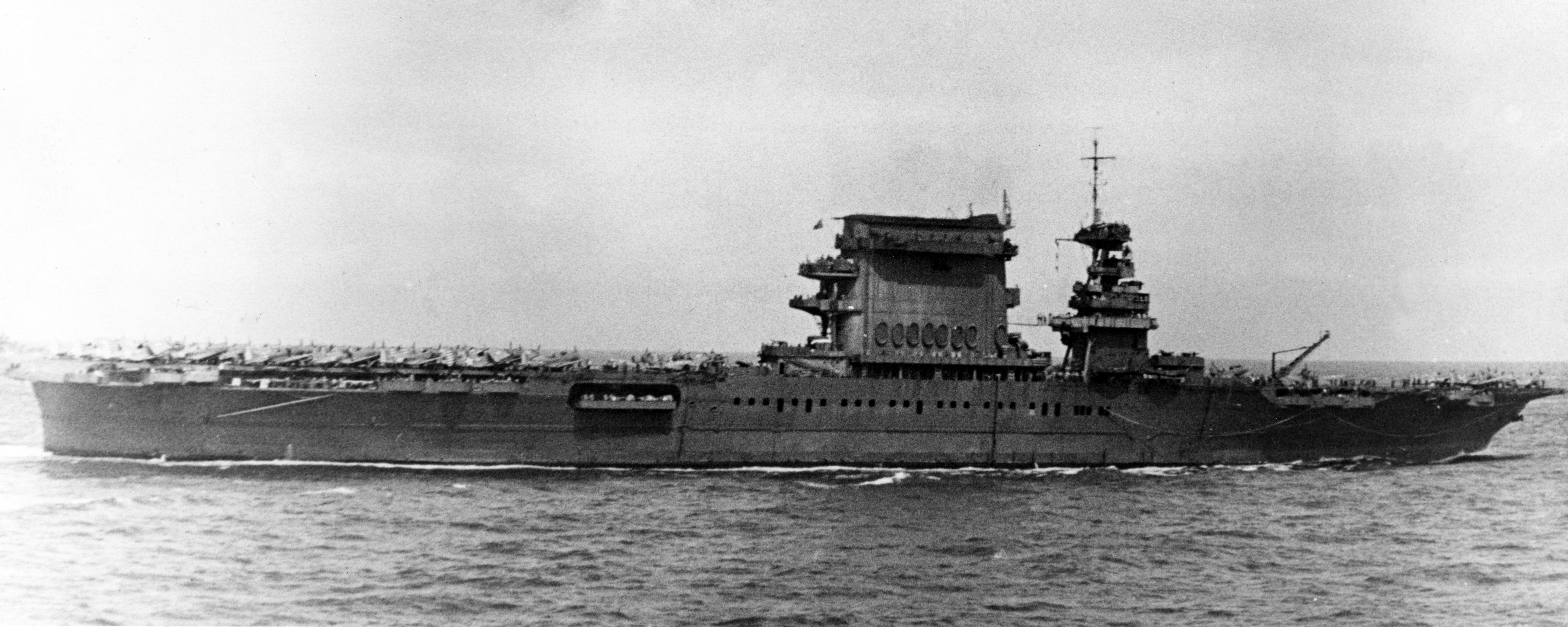 The U.S. Navy aircraft carrier USS Lexington (CV-2) underway during the Battle of the Coral Sea, 8 May 1942. This view appears to have been taken in the early afternoon, about 1430 hrs, after the planes of VT-2 and escort had been recovered and initial damage control measures had been effected, but before the start of the fires that led to the ship's loss. This is the last known photograph of Lexington in operational condition. Note she is already down by the bow after being torpedoed. The photo was taken from the heavy cruiser USS Portland (CA-33).